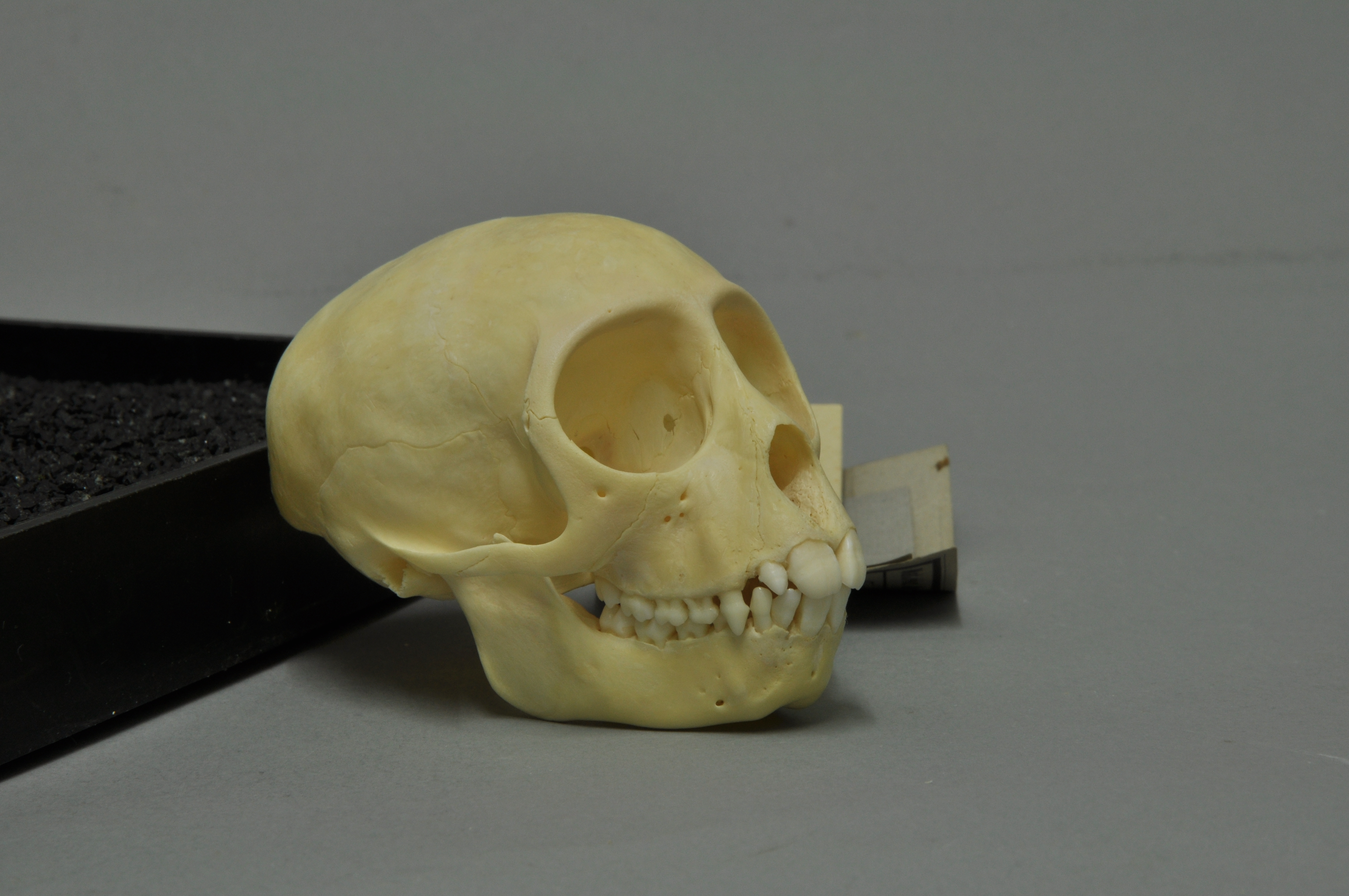 Red-tailed monkeyCercopithecus ascanius , skull, Coll. Museum Wiesbaden